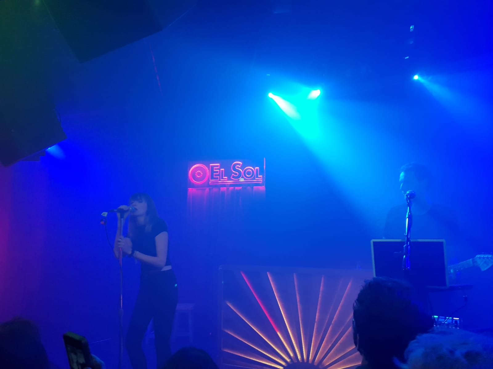 REYKO at Sala El Sol, Madrid in September 2019